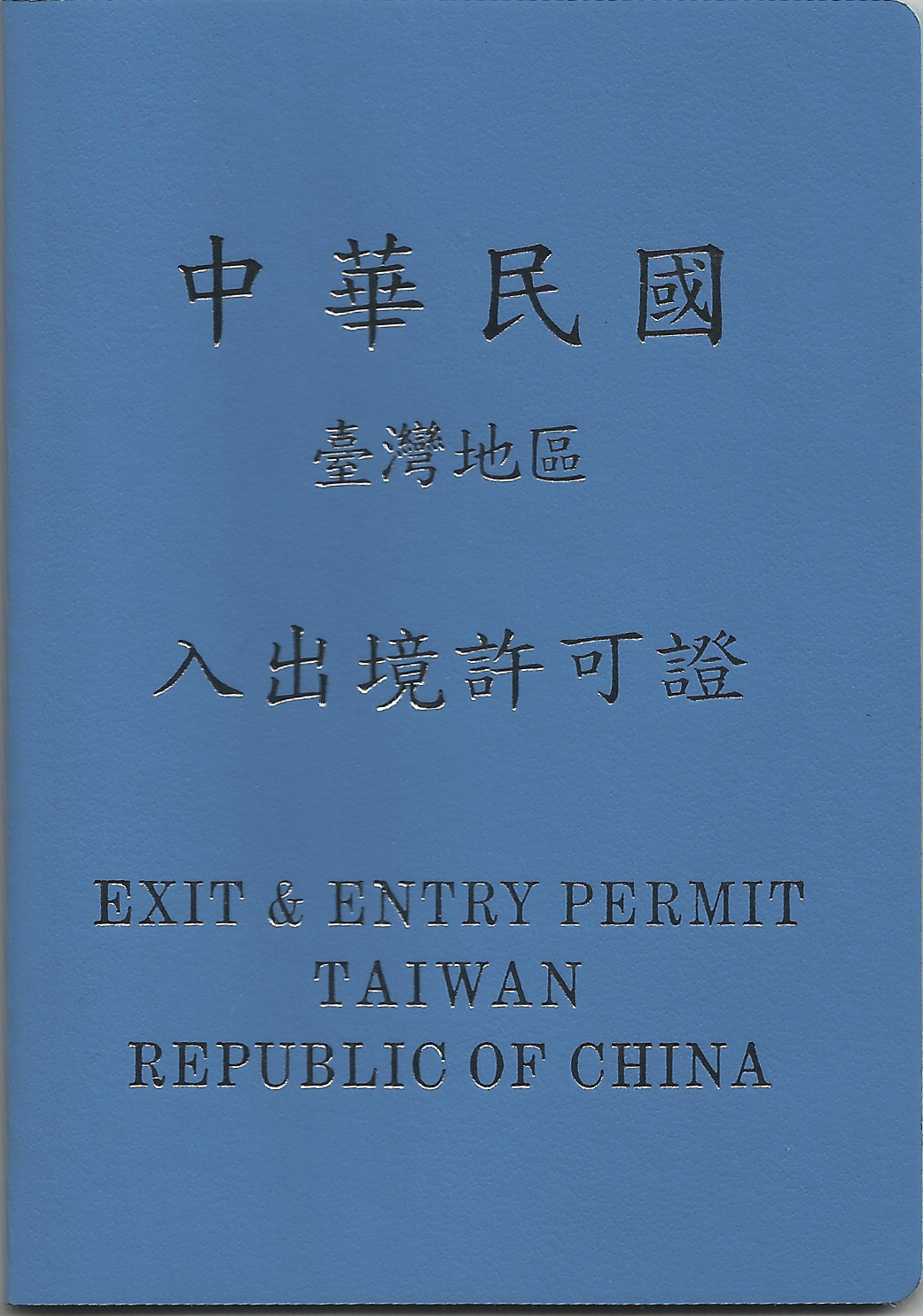 The cover of multiple use Exit & Entry Permit (Republic of China).